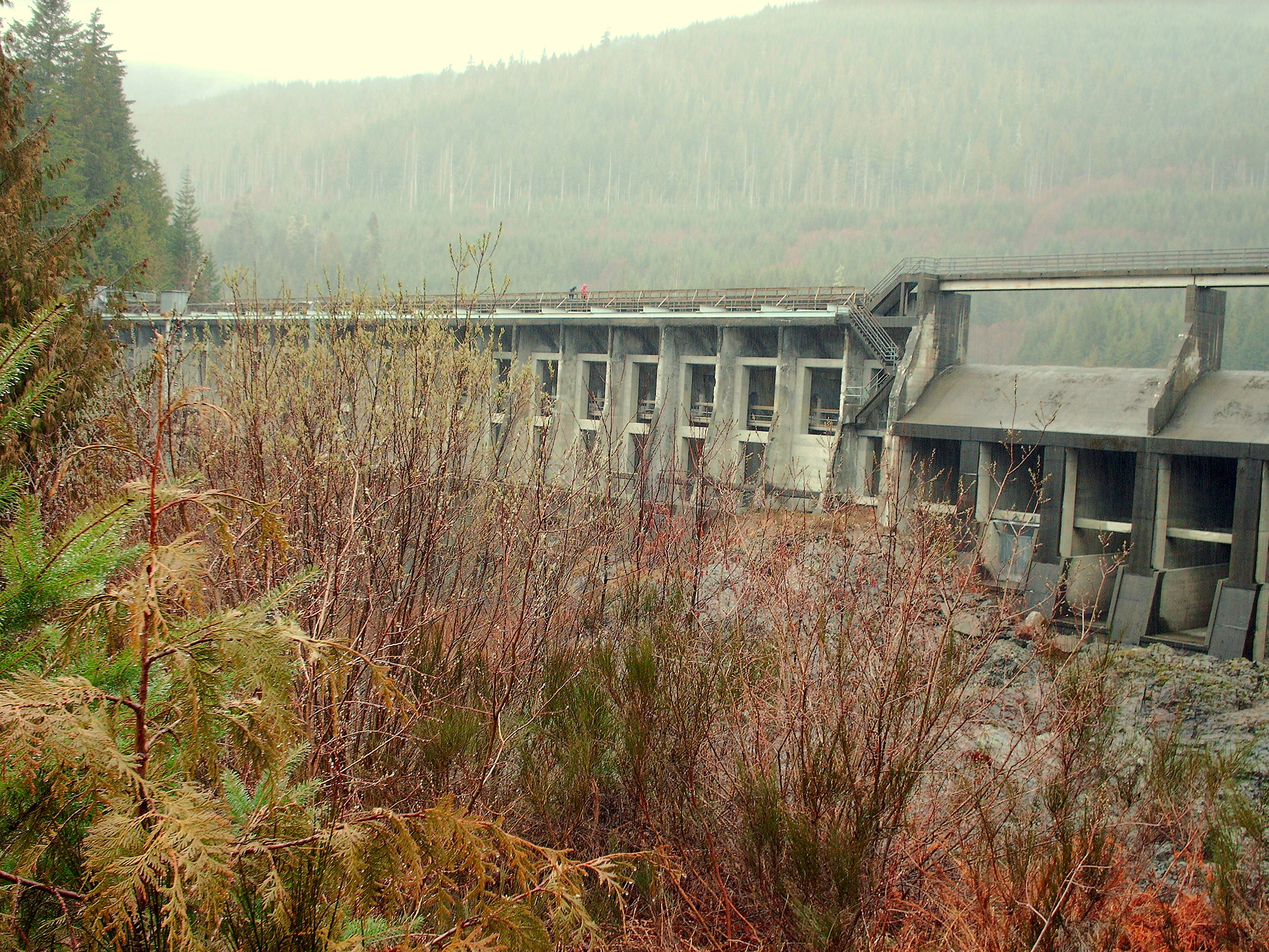 Diversion Dam near Jordan River